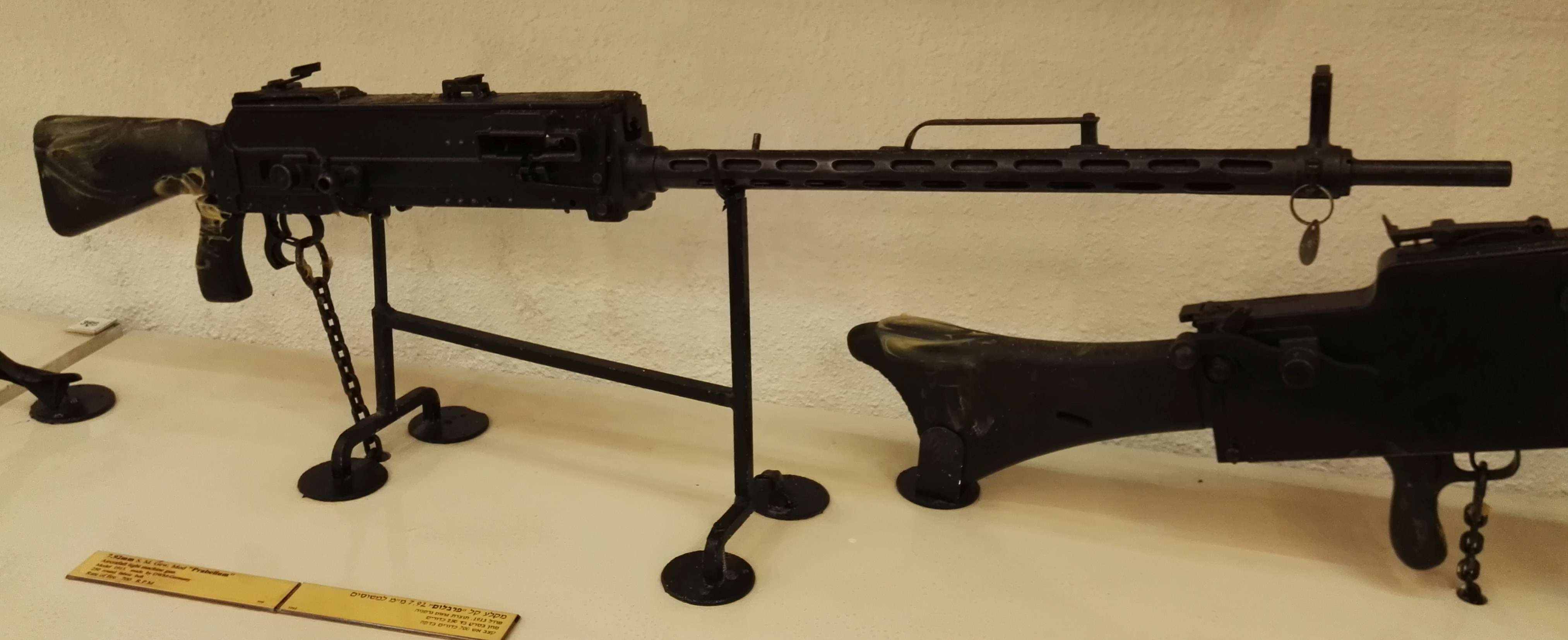 Parabellum MG 14/17. Batey ha-Osef Museum, Tel Aviv, Israel.